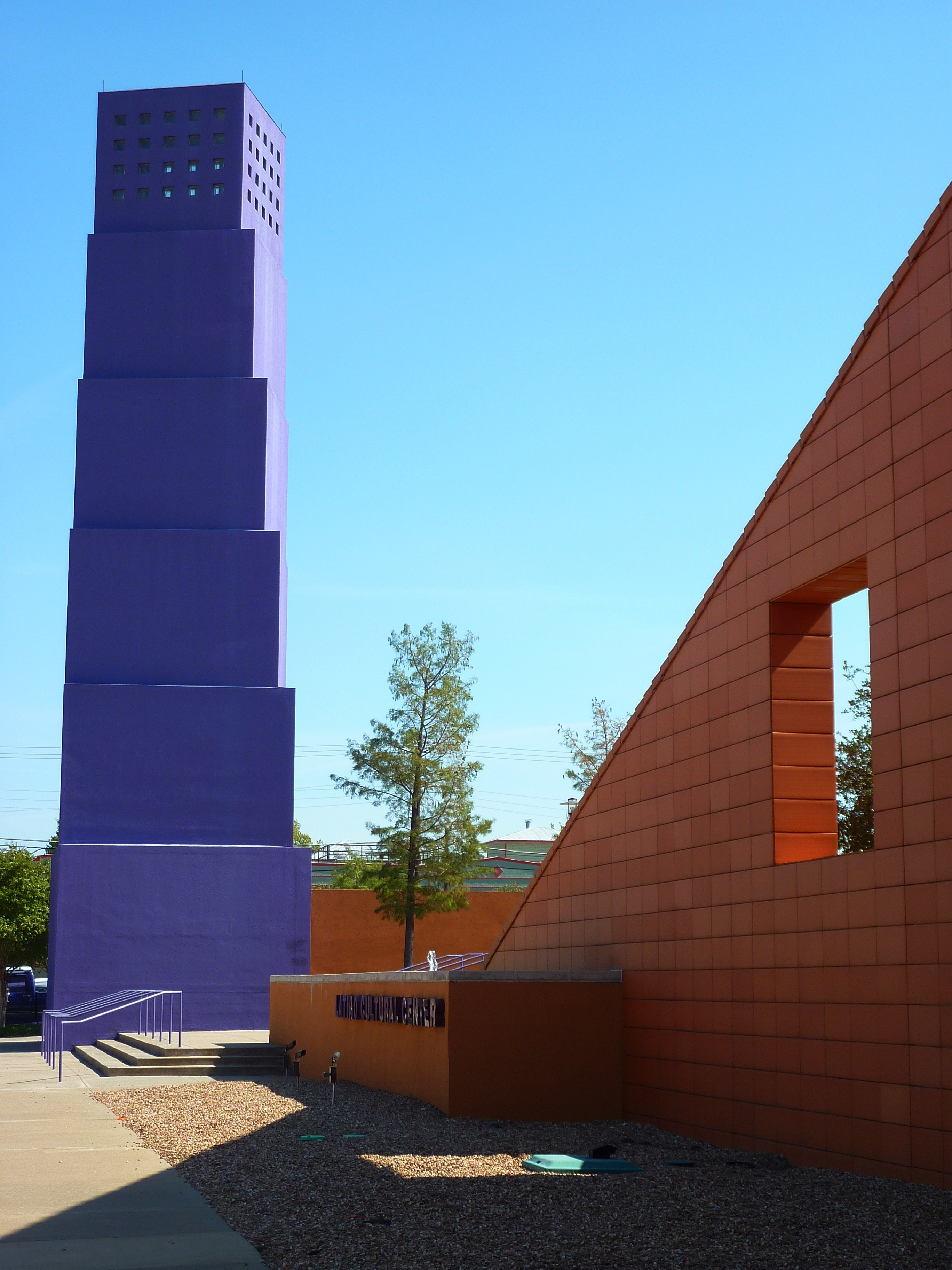 Live Oak Street frontage with tower